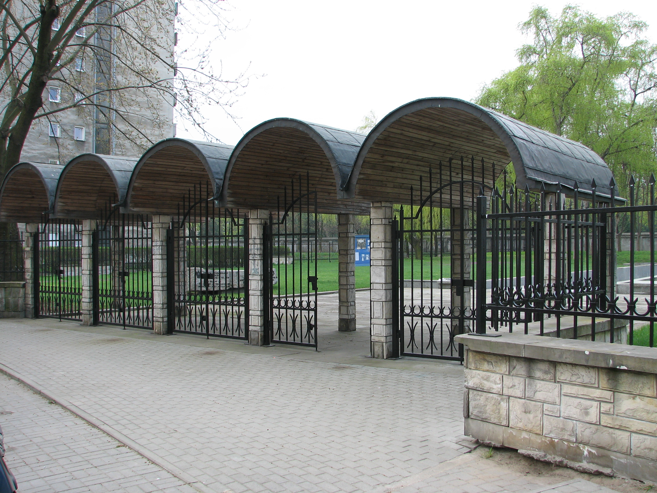 Monument of Jews and Poles Common Martyrdom in Warsaw, Gibalskiego street 21